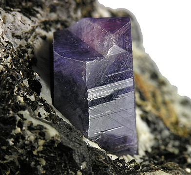 Corundum (Var.: Sapphire) Locality: Zazafotsy Quarry (Amboarohy), Zazafotsy Commune, Ihosy District, Horombe Region, Fianarantsoa Province, Madagascar (Locality at ) Size: 6.0 x 3.8 x 2.7 cm. For both size and quality, this is one of the very best examples of the recently found Corundum specimens from Madagascar. I obtained it directly from Dr. Federico Pezzotta who collected it while doing research there. It features several fine, sharp, lustrous, prismatic, hexagonal crystals of a bluish-purple color (with slight pink zones) measuring up to 2.2 cm long perched on schist matrix. Some of these specimens show an obvious color change from indoor lighting to sunlight, but this change is minimal in this piece.